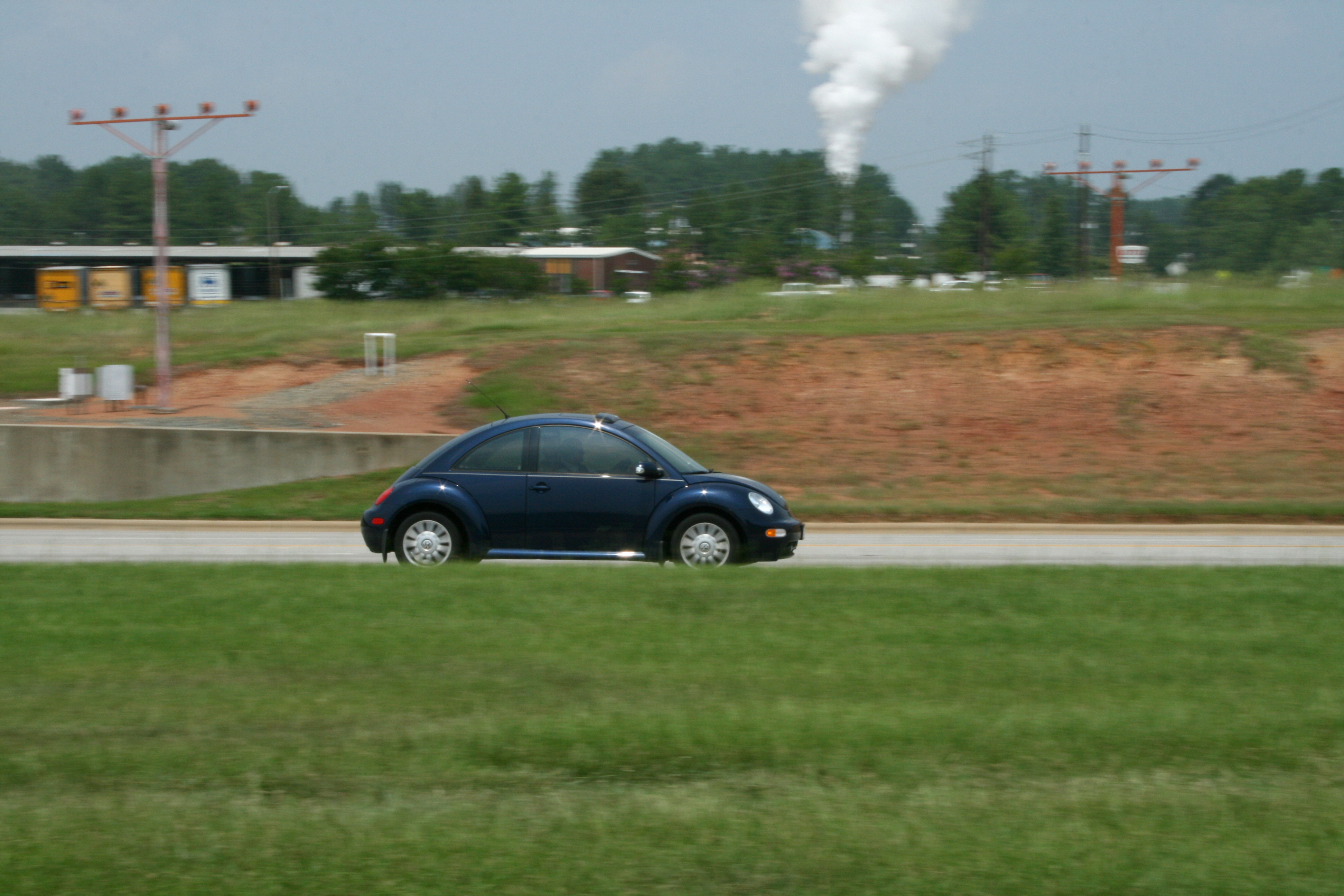 Volkswagen New Beetle passing Raleigh-Durham International Airport on Lumley Rd.